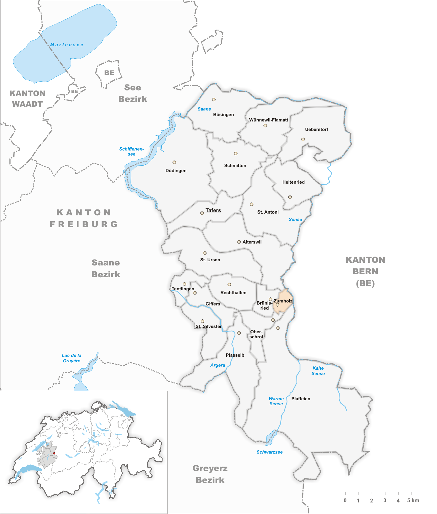 Municipality Zumholz